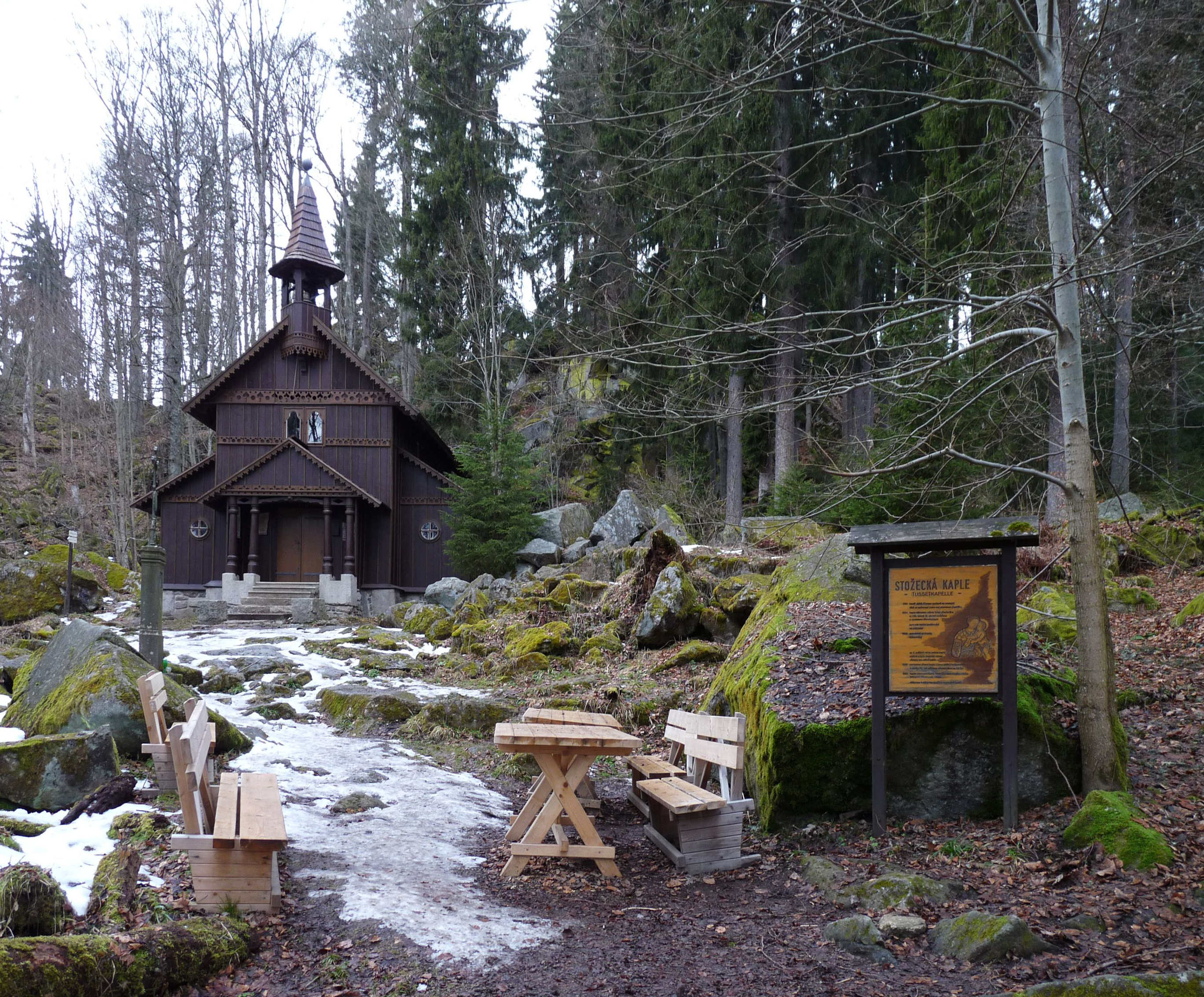 Chapel of the Virgin Mary in the municipality of Stožec, Prachatice District, South Bohemian Region, Czech Republic.